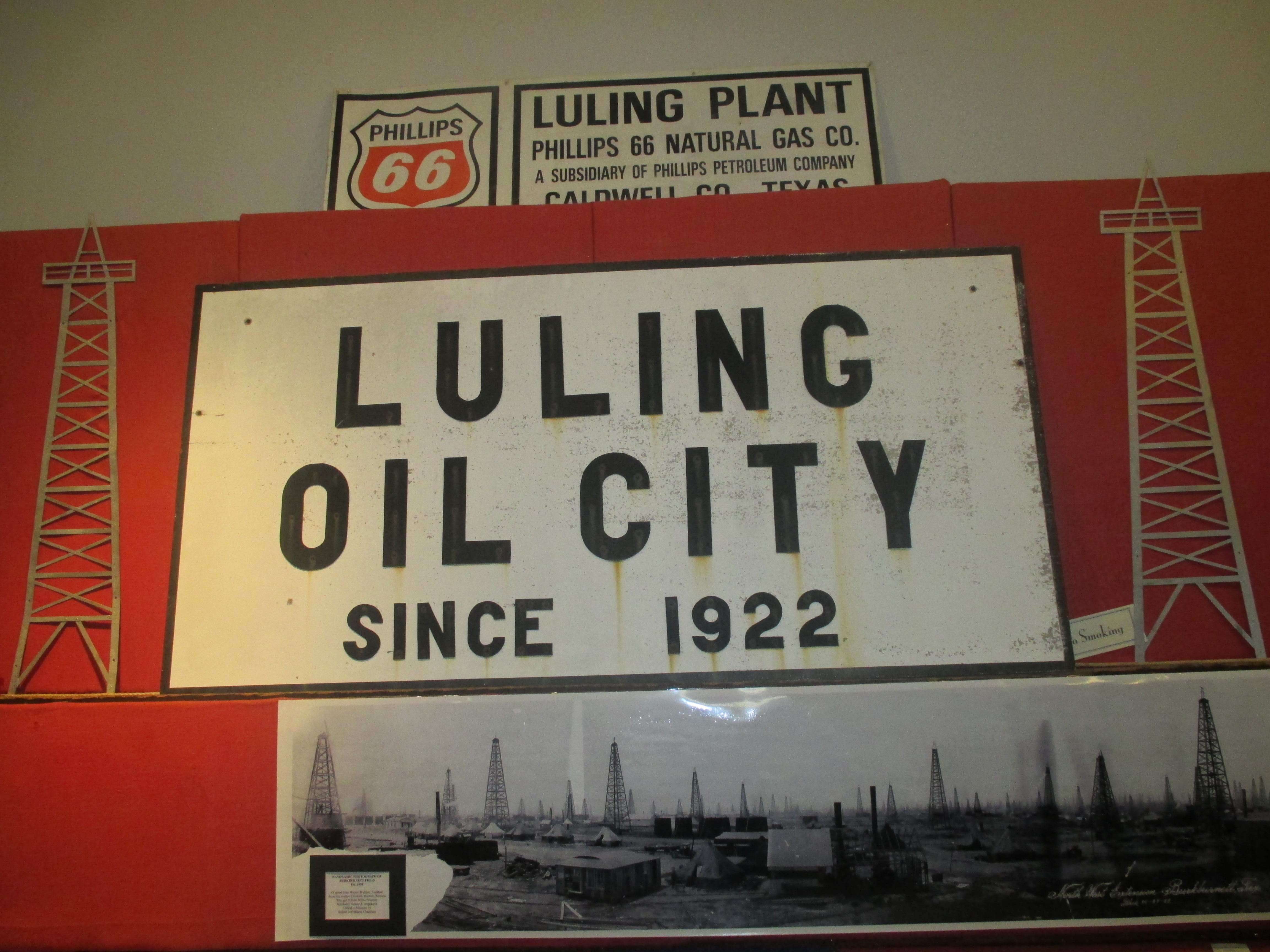 Photo of Luling Oil Museum in Luling, TX, with Canon camera